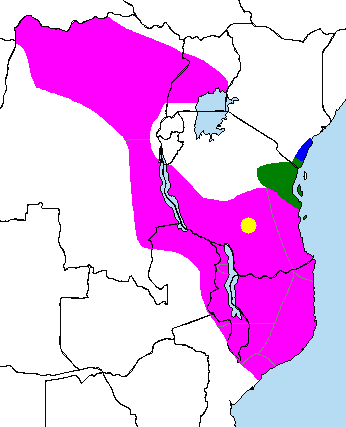 The approximate distribution of the four species of the sengi genus Rhynchocyon: Pink: Rhynchocyon cirnei yellow: Rhynchocyon udzungwensis green: Rhynchocyon petersi blue: Rhynchocyon chrysopygus. The borders between the subspecies of R. cirnei are indicated in grey.